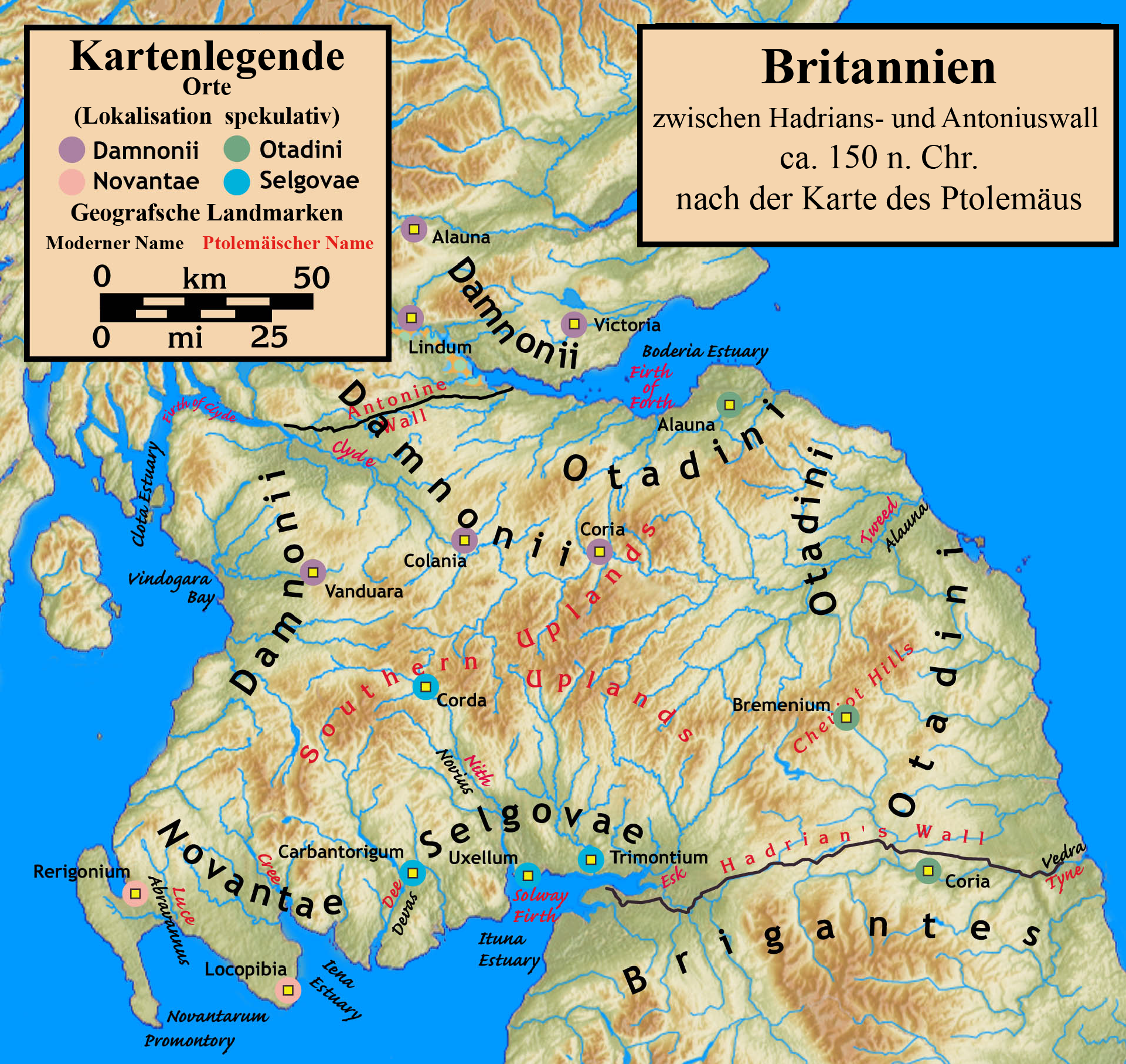 Ptolemy's map of Scotland south of the Forth.